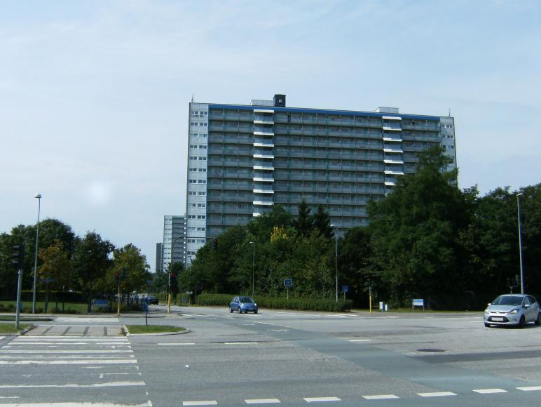 Brøndby Nord Vej seen from Brøndbyøstervej